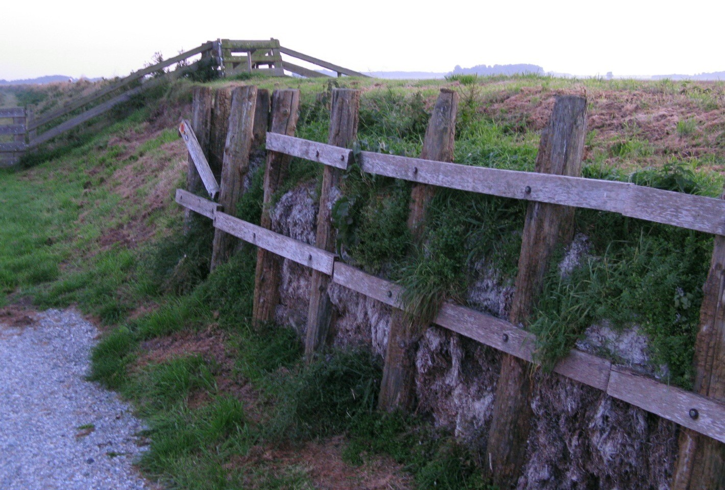 sea weed dyke